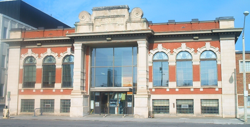 The Brodie Street branch of the Thunder Bay Public Library Template:Ontario Heritage Act Rergister